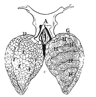 Malpighi's microcopes imagine for lung